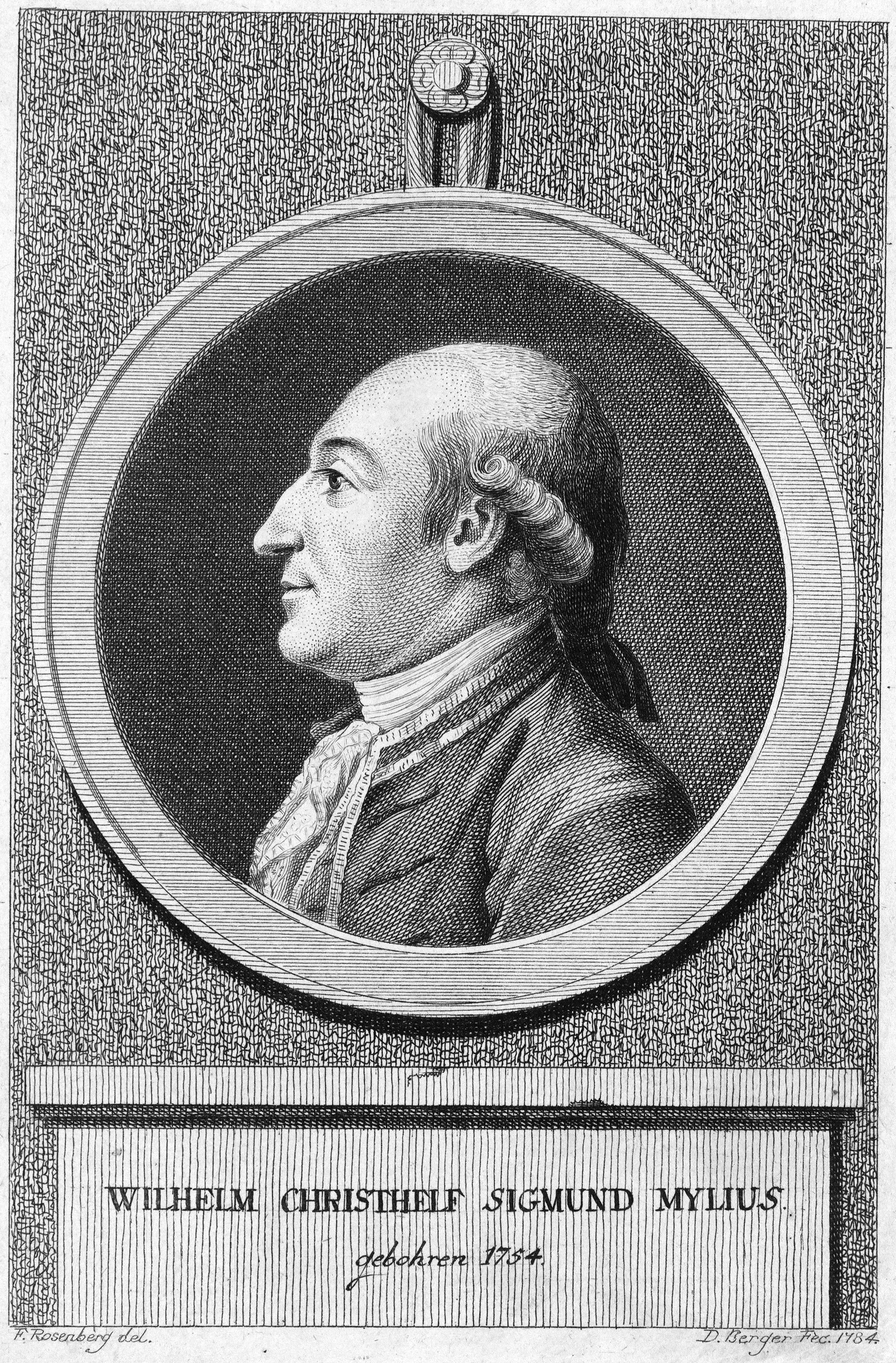 Portrait of Wilhelm Christhelf Sigmund Mylius (1754-1827), German writer and translator